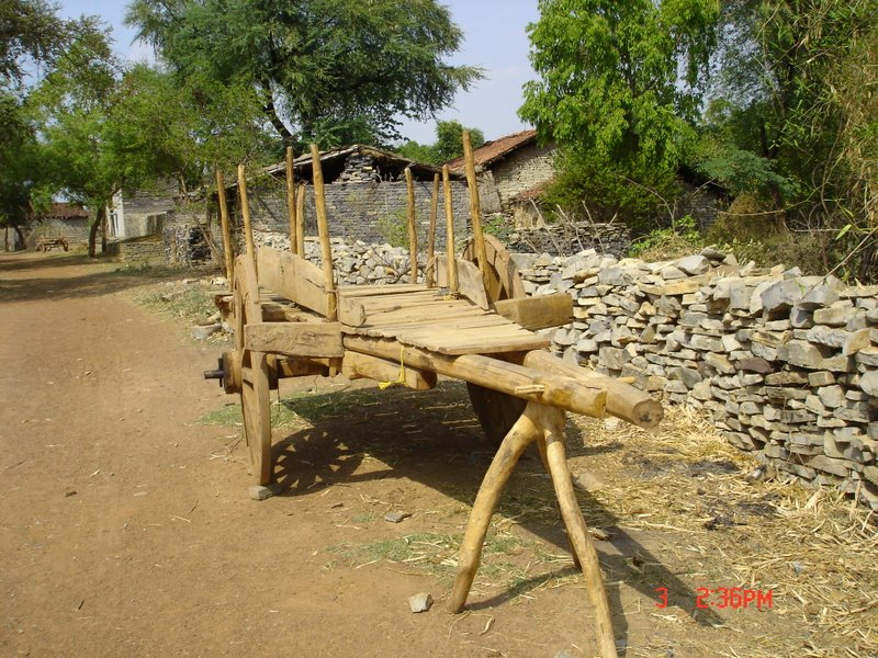 A village scene in central Chhattisgarh